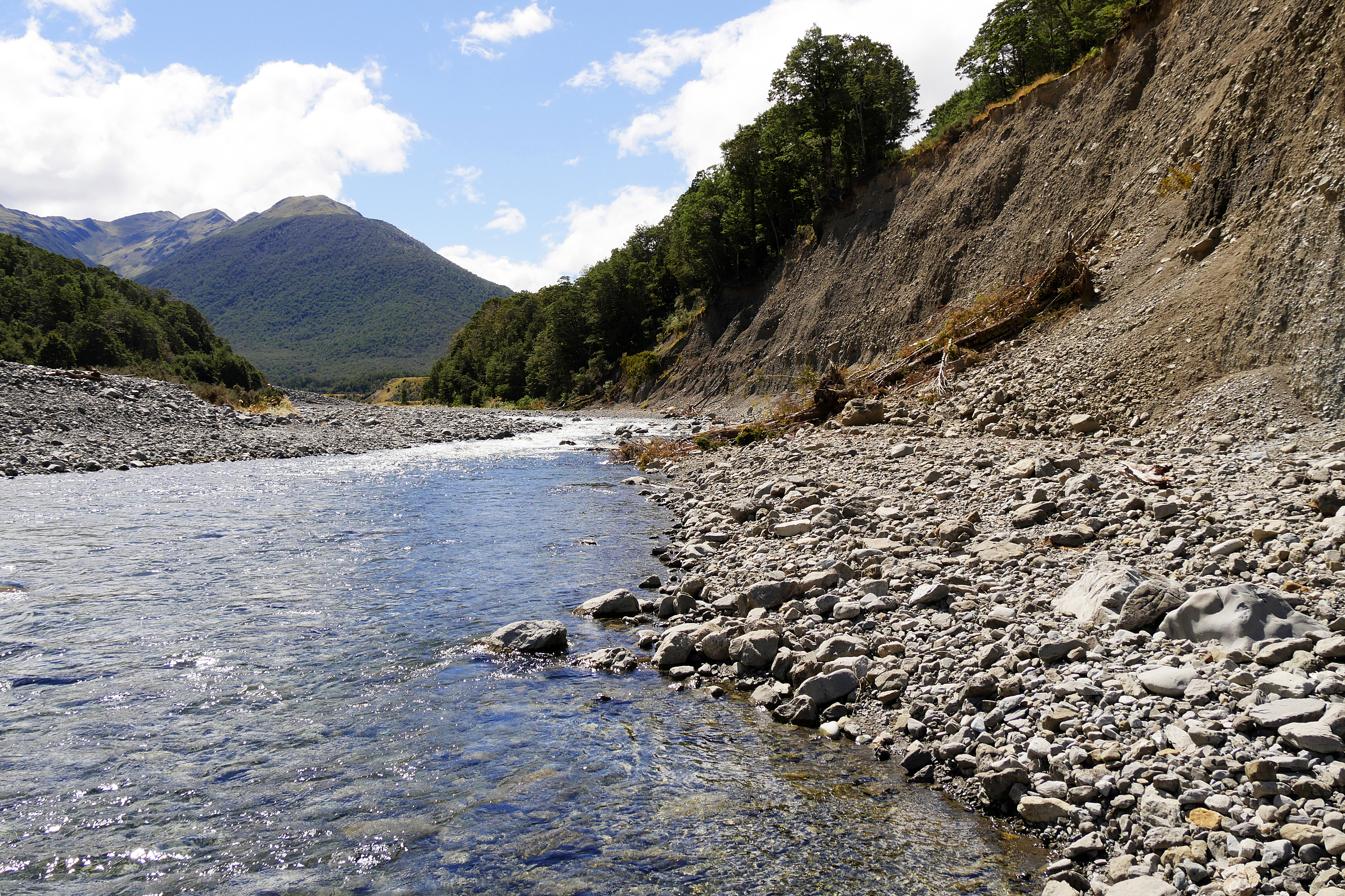 Lewis River at Sylvia Flats hot pools, Hurunui District, Canterbury Region, South Island, New Zealand (view to north). A Landslide happned a month before